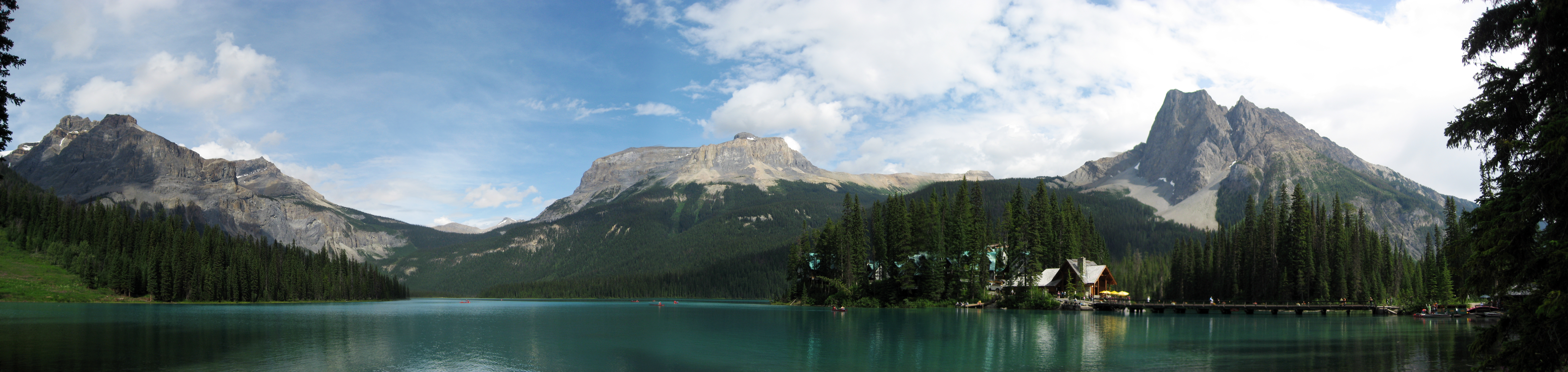 This is Emerald Lake, BC, panorama view